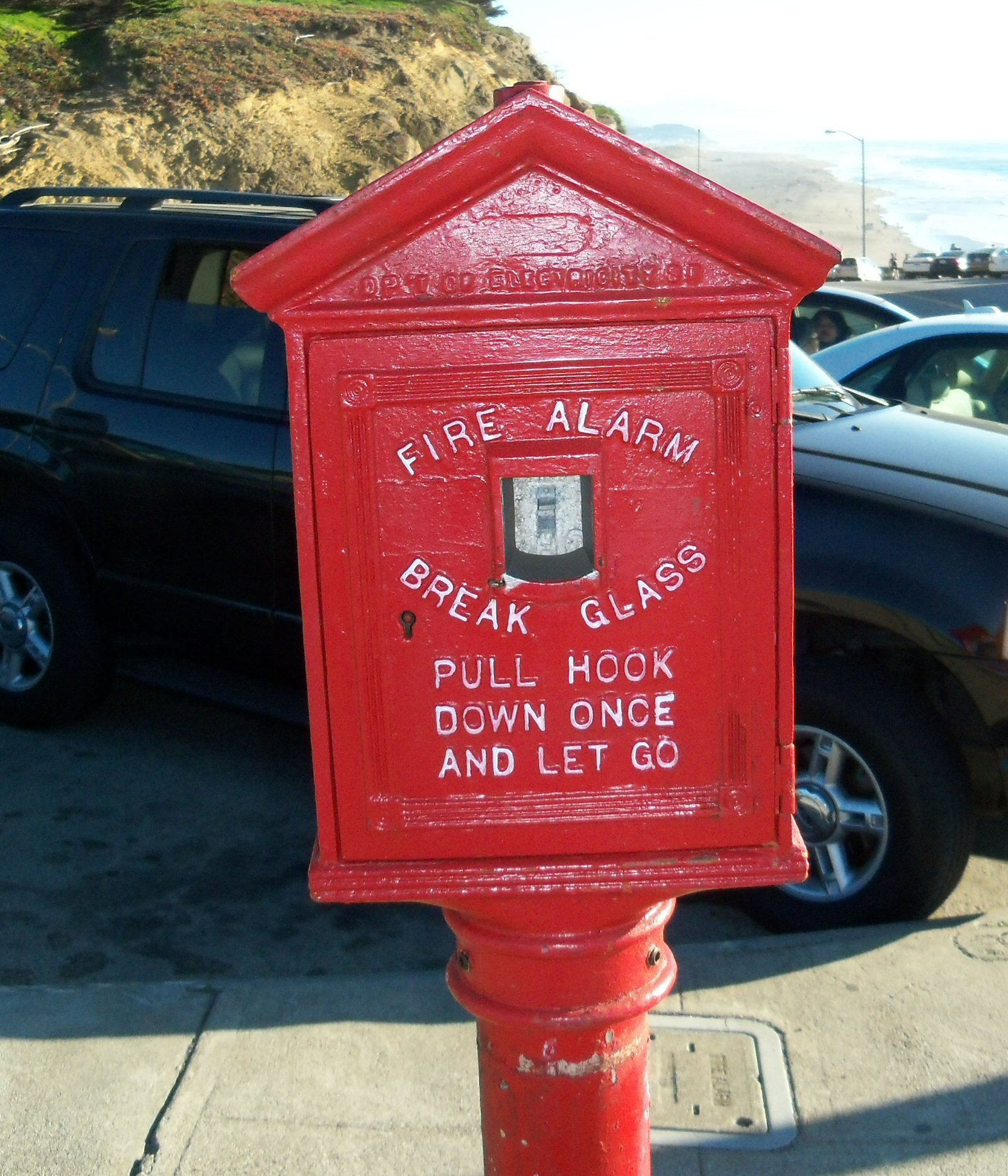 Fire Alarm in San Francisco, California